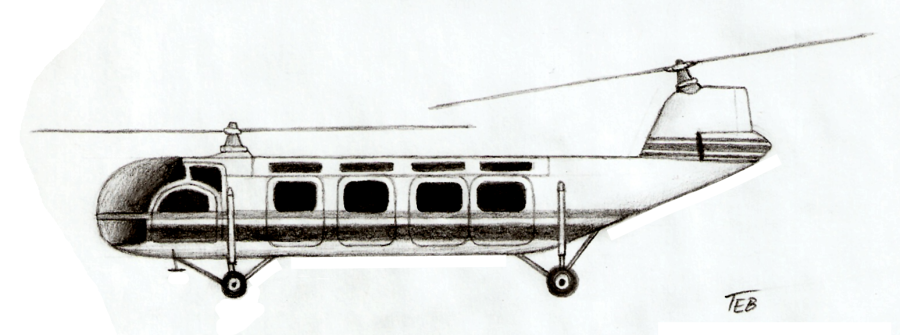 Unbuilt project from Brantly for a turbine powered twin-rotor 10-passenger helicopter, designated B2J10. Was to be powered by two Allison 250-C18 or two Boeing 550-1-12C engines. Originally scheduled to fly in 1967.